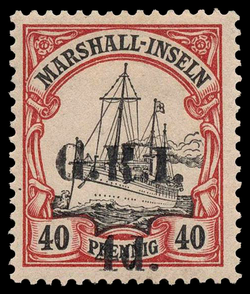 Postage stamp of the German Marshall Islands overprinted by British occupation forces, SMY Hohenzollern, 4d on 40 pfennigs, 1916